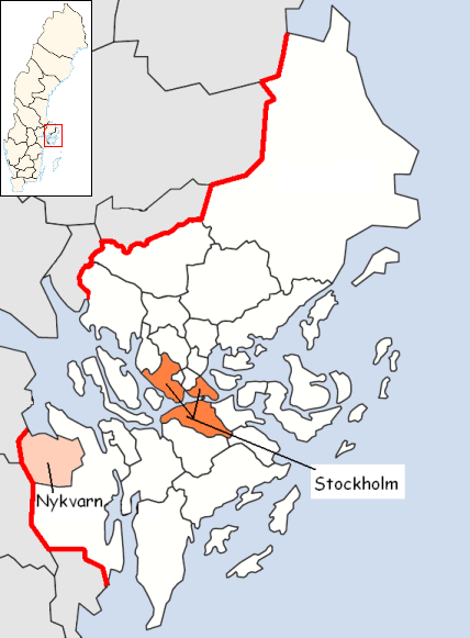 Nykvarn Municipality in Stockholm County Designed by me. Mere outlines are a PD source from